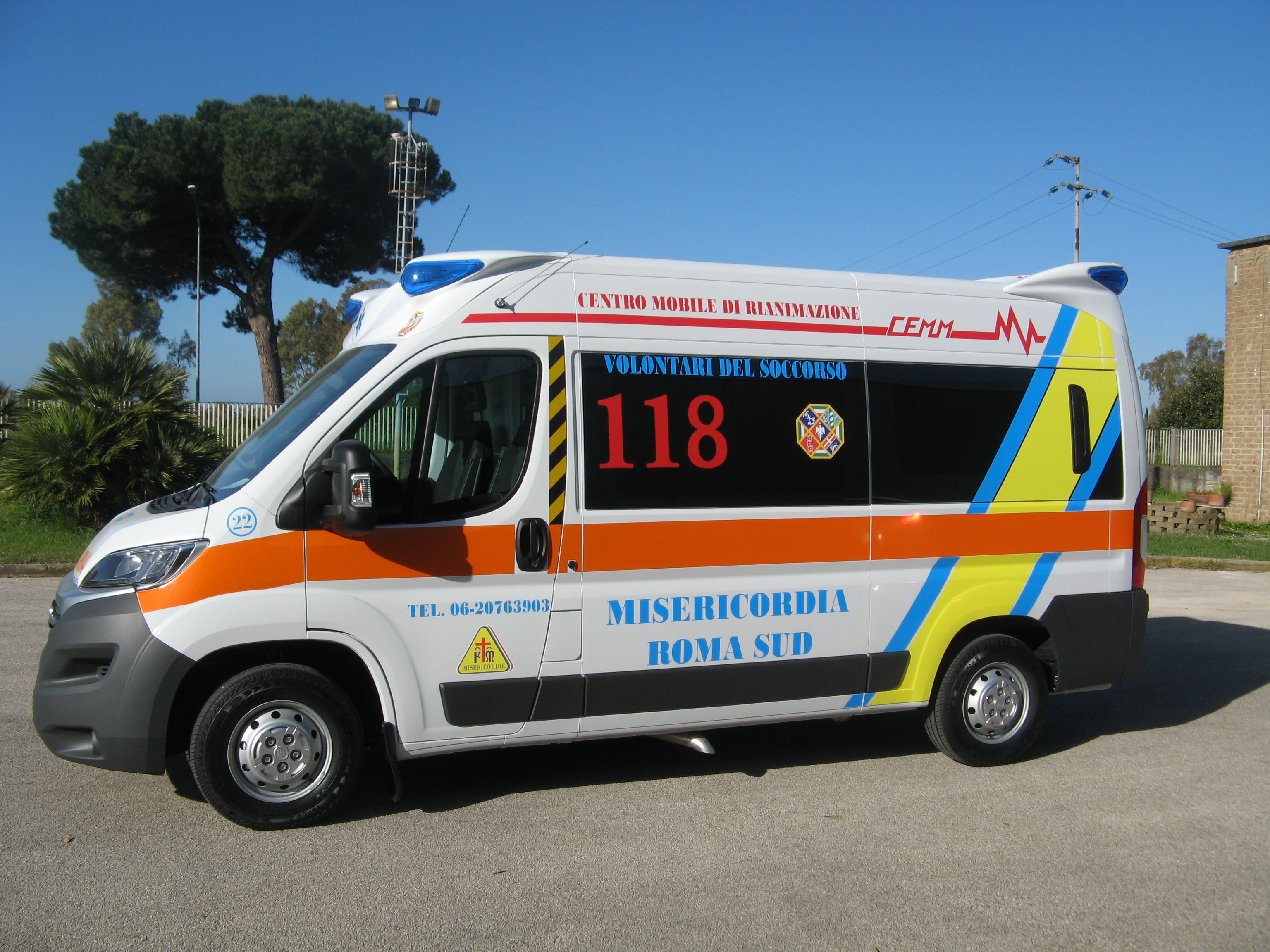 Ambulance Fiat Ducato 2015 built by Bollanti Healthcare Vehicles